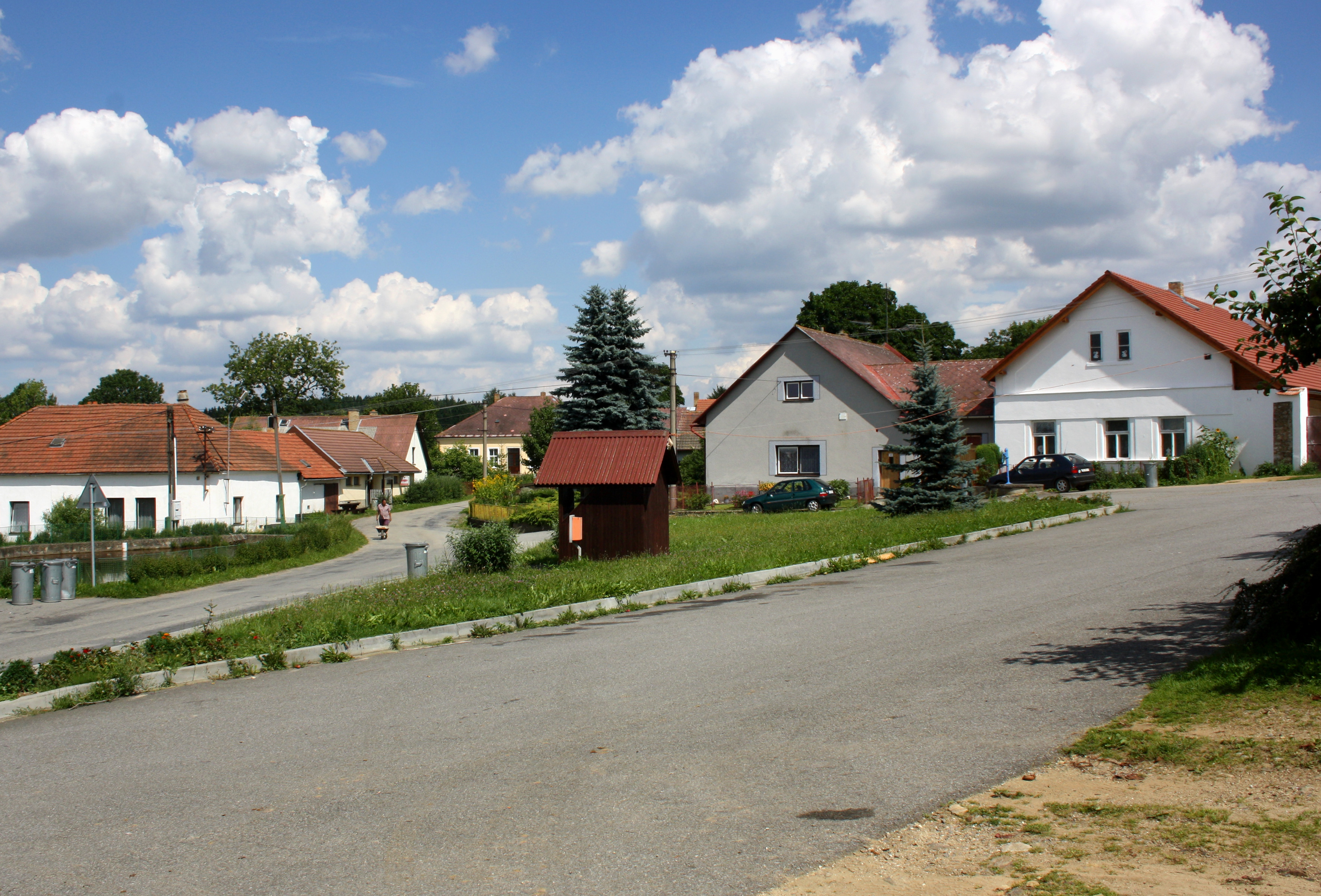 Common in Proseč pod Křemešníkem village, Czech Republic